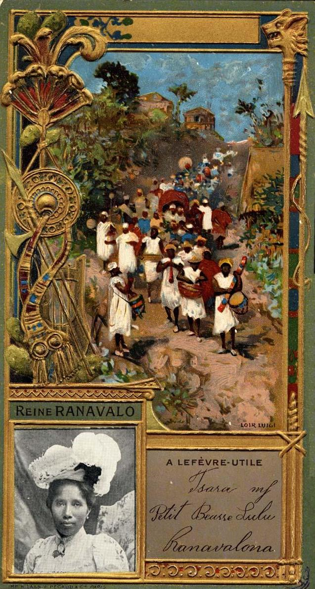 Artwork produced for Petit Beurre cookies box featuring Queen Ranavalona III